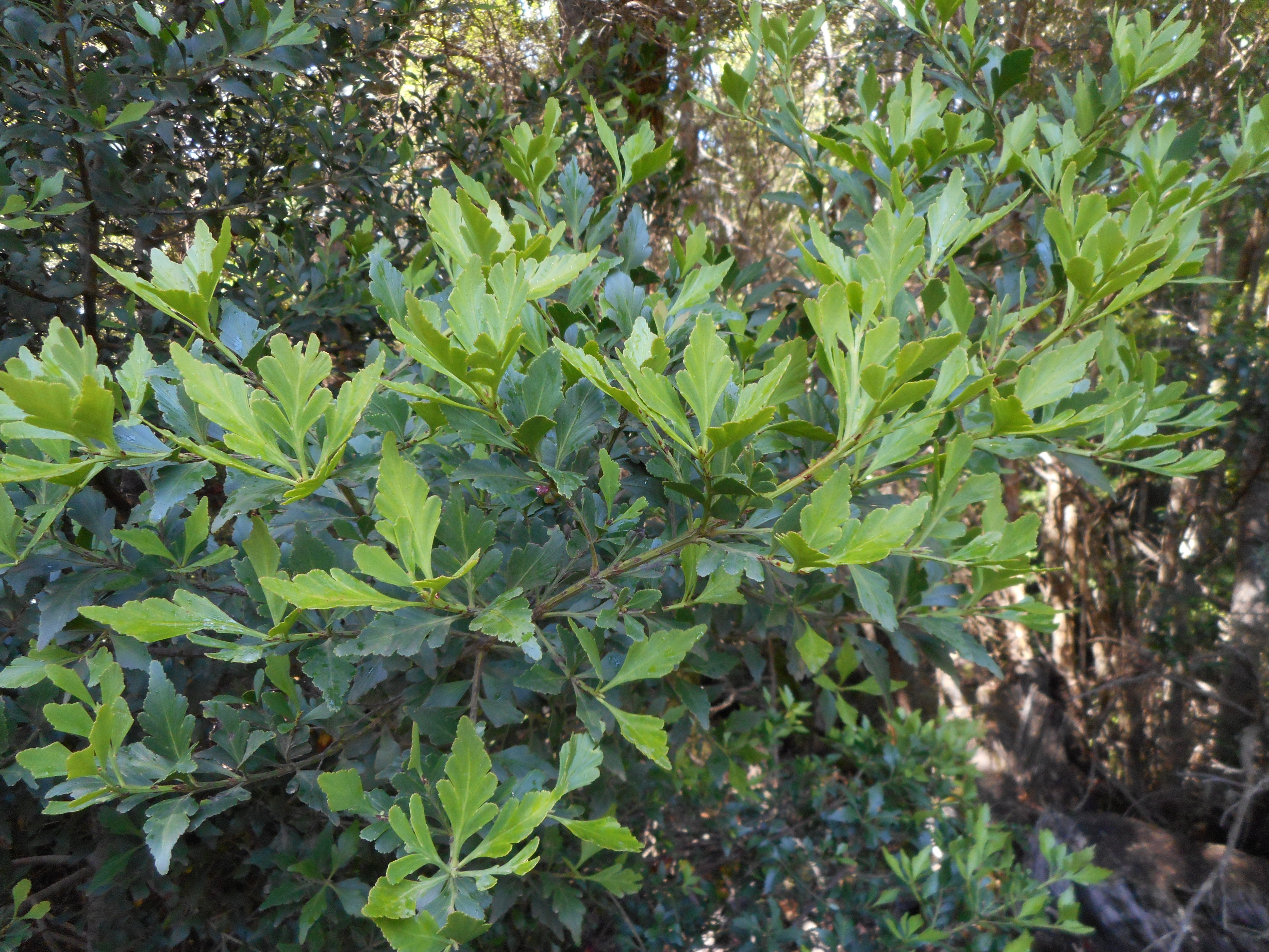 Leaves of the celerytop pine, looking like its namesake, celery. Taken in mixed forest at Mt Field National Park, Tasmania, Australia.